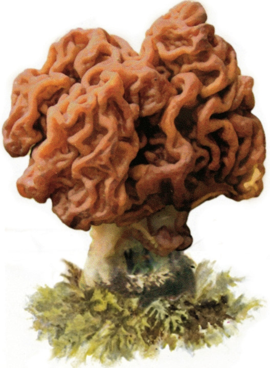 This is a mixture of a photograph (Frühjahrslorchel.JPG) and vegetation taken from an unrecorded picture published in one of the volumes of Führer für Pilzfreunde. Schmalfuß was not the creator of the main content of this file.